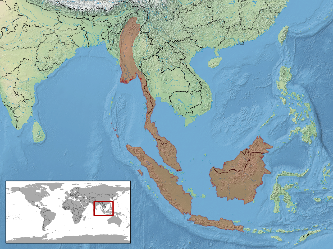 geographic distribution of Gekko smithii (Native: Indonesia (Jawa, Kalimantan, Sulawesi, Sumatera); Malaysia (Peninsular Malaysia, Sabah, Sarawak); Myanmar; Singapore; Thailand)